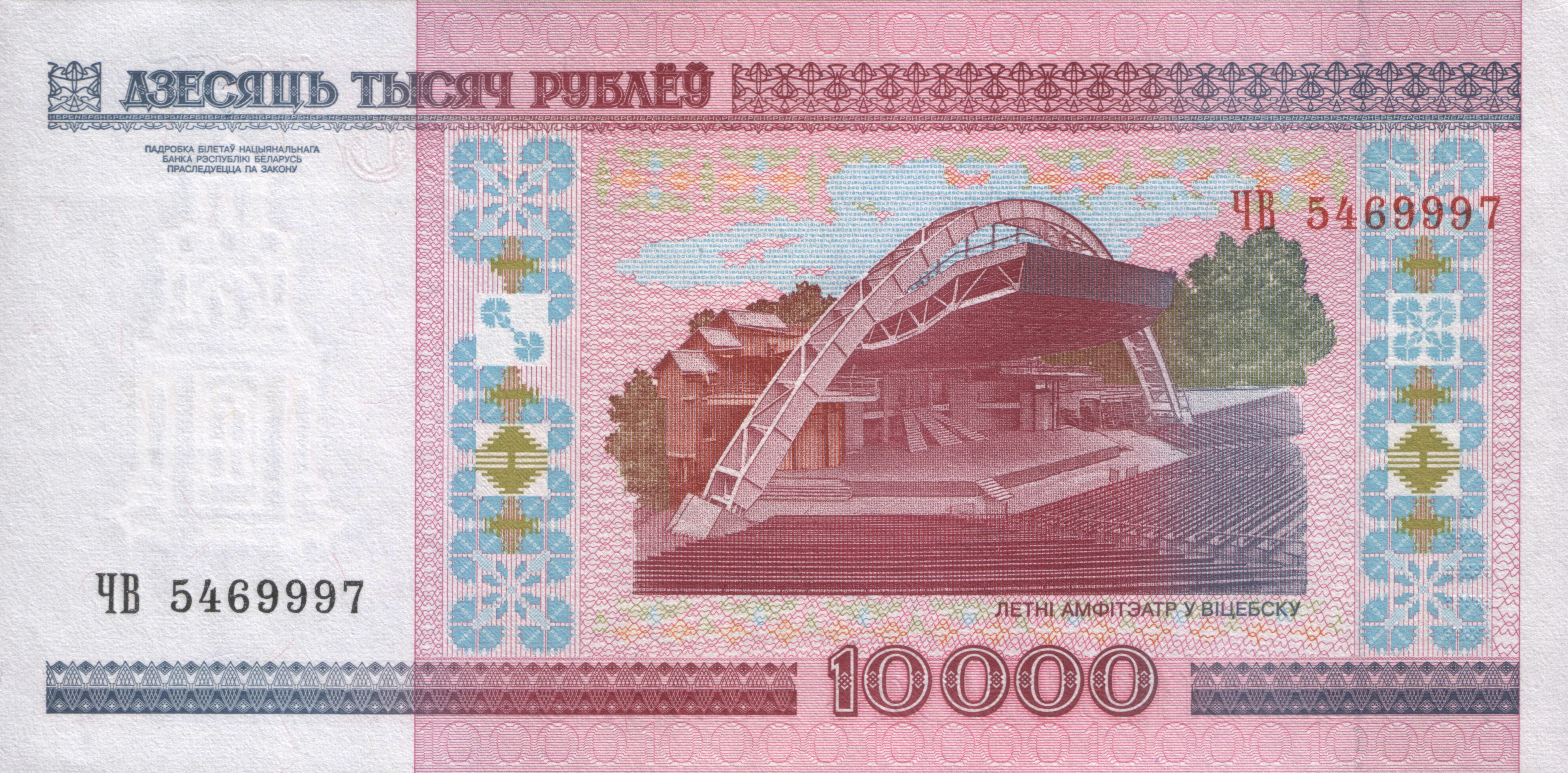 10000 roubles of Belarus (2000)